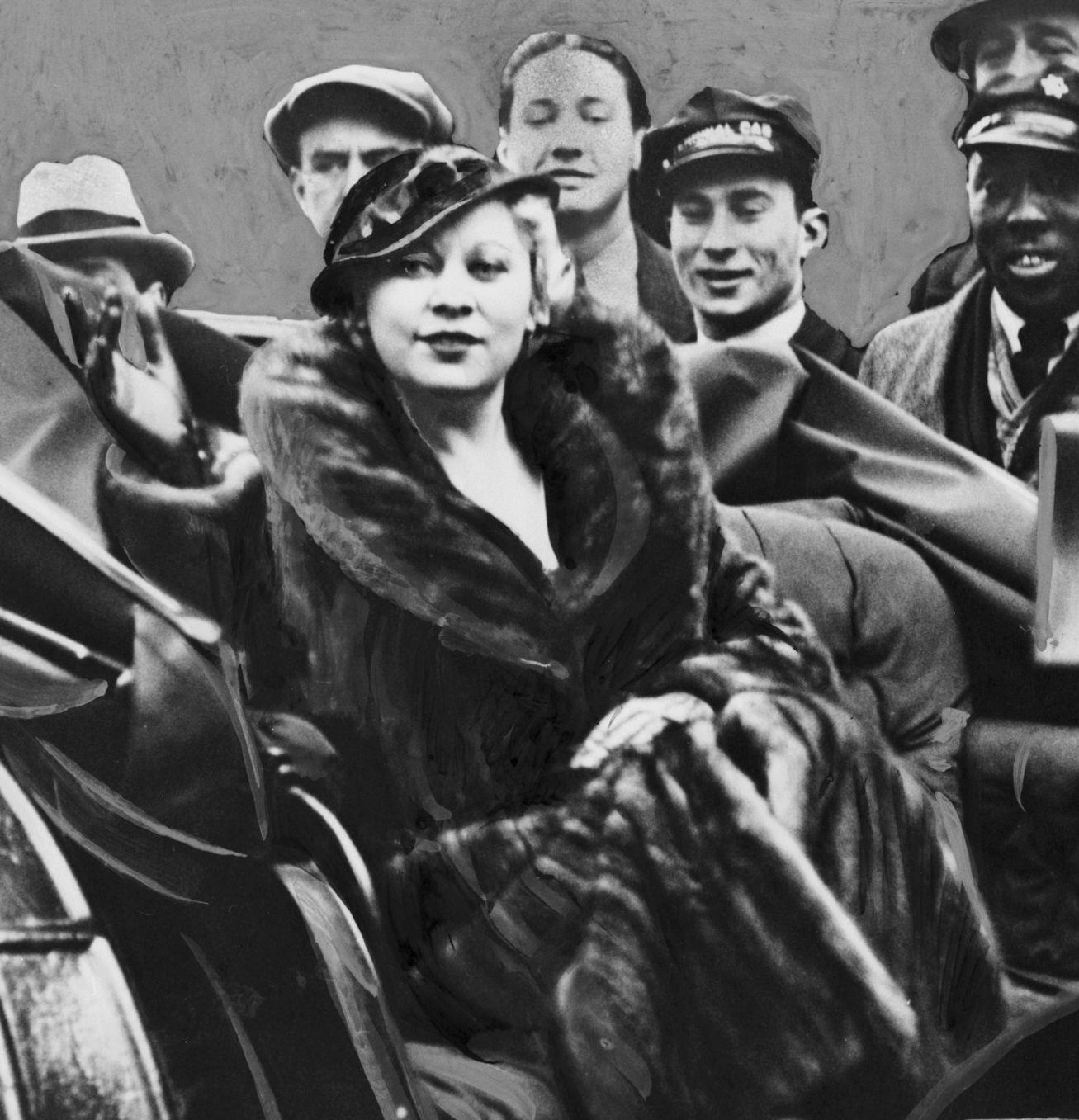 Mae West. Library of Congress description: "Diamond L'il rides home from Hollywood... / World Telegram photo. Mae West, riding in a carriage, on her return from Hollywood." Cropped from Image:Mae_West_NYWTS.jpg